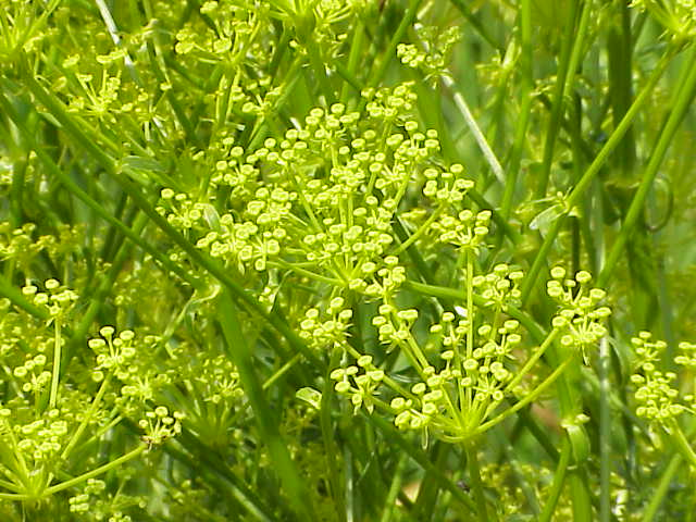 Species: Ferulago campestris Family: Apiaceae Image No. 2